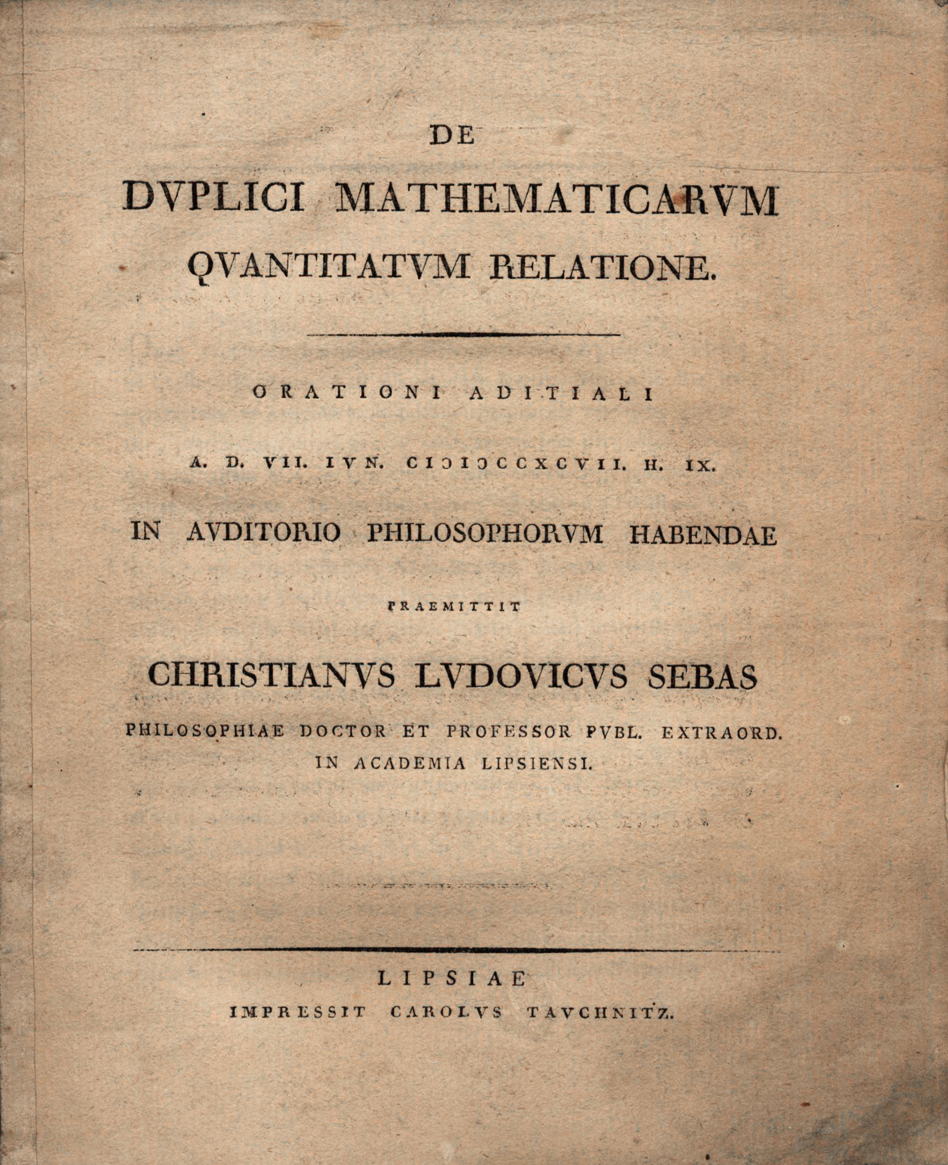 Book cover from Christian Ludwig Seebaß:De Duplici Mathematicarum Quantitatum Relatione. Orationi Aditiali A. D. VII. Iun. MDCCXCVII. H. IX. In Auditorio Philosophorum Habendae Praemittit Christianus Ludovicus Sebas, Philosophiae Doctor Et Professor Publ. Extraord. In Academia Lipsiensi. Lipsiae. Impressit Carolus Tauchnitz.Karl Tauchnitz, Leipzig 1797